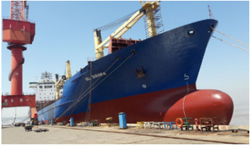 Oel shravan